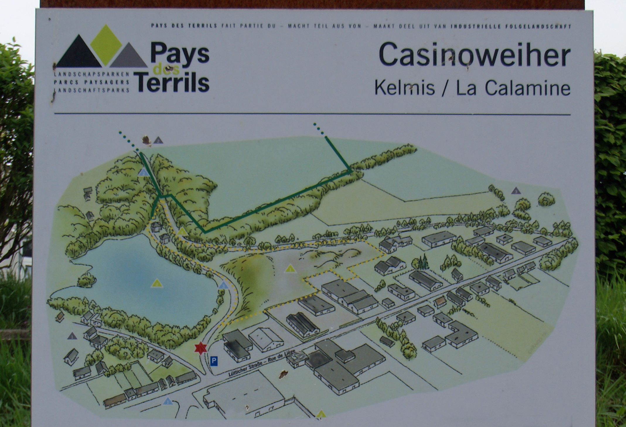 Kelmis (Belgium): Map of the Casinoweiher Lake and the natural reserve